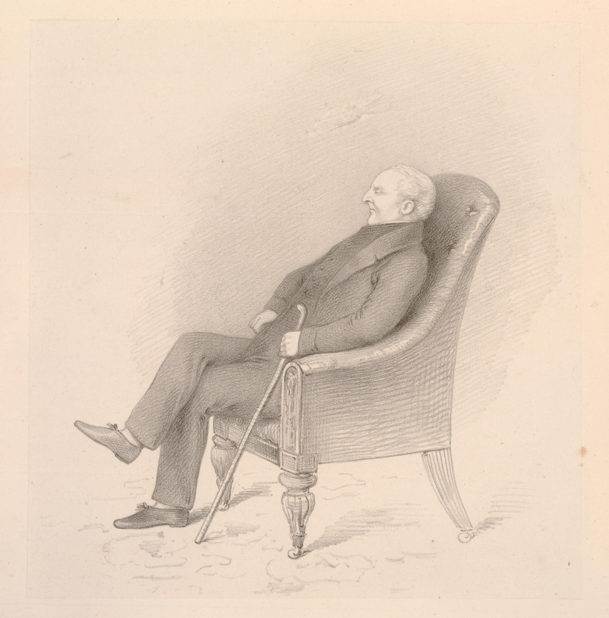 Portrait of Peter Burrowes, whole-length sitting in armchair, in profile to the left, in private dress, with eyes closed, legs crossed, stick in his left hand. Lithograph, printed on chine collé